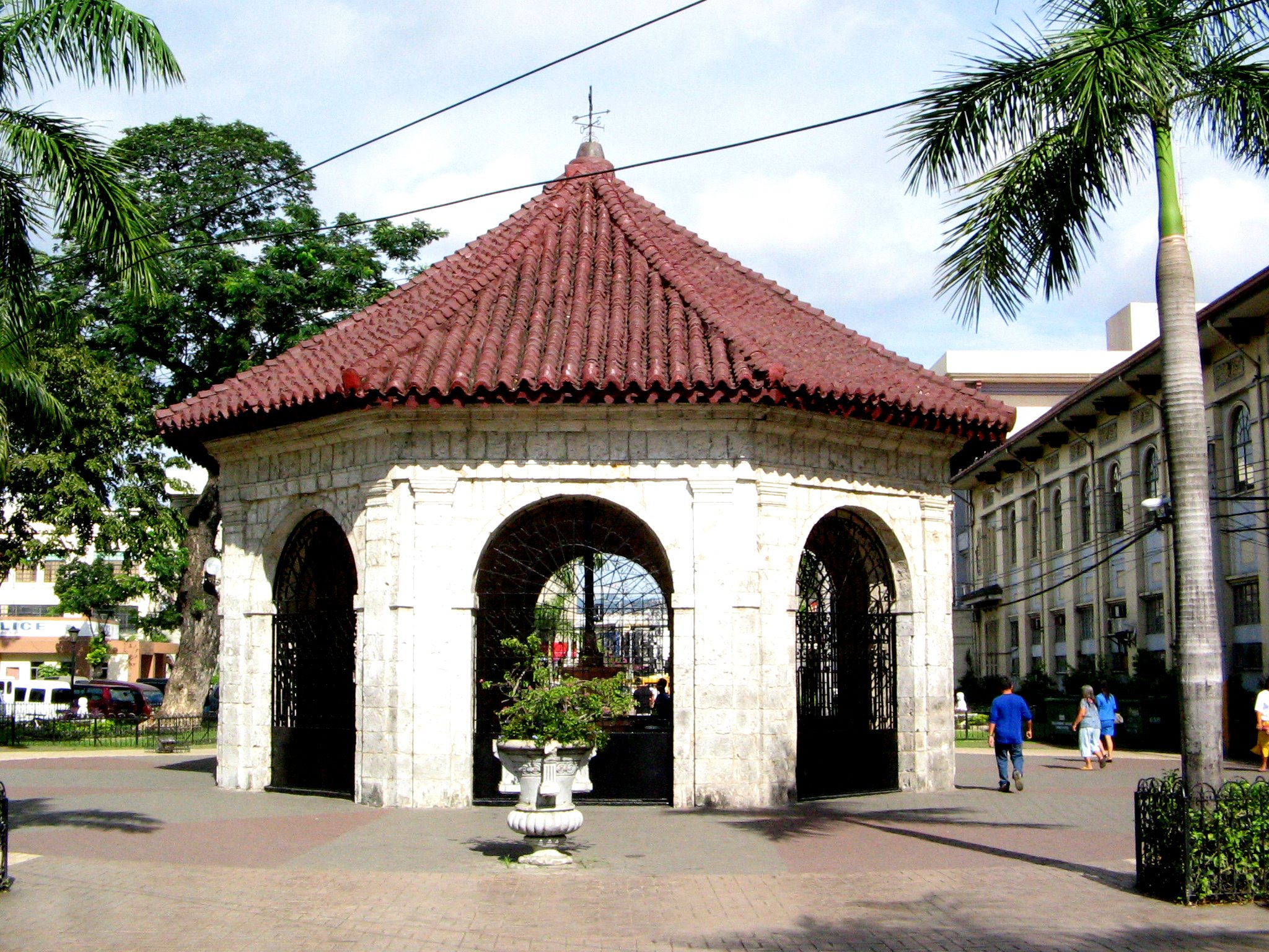 Magellan's Cross exterior, Cebu City, Philippines